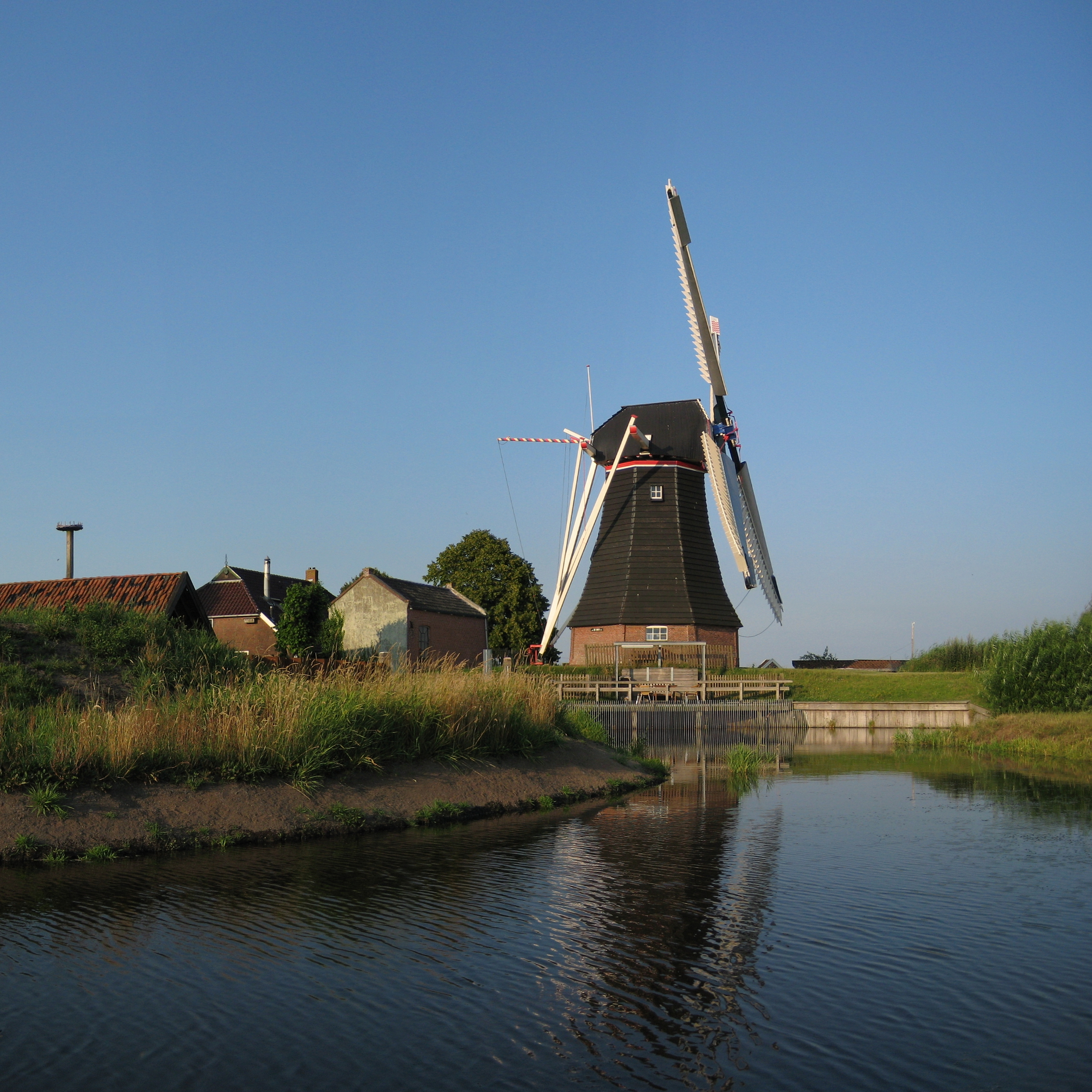 Windmill De Biks (1857) near Onnen (Haren), a village in the Dutch province of Groningen.